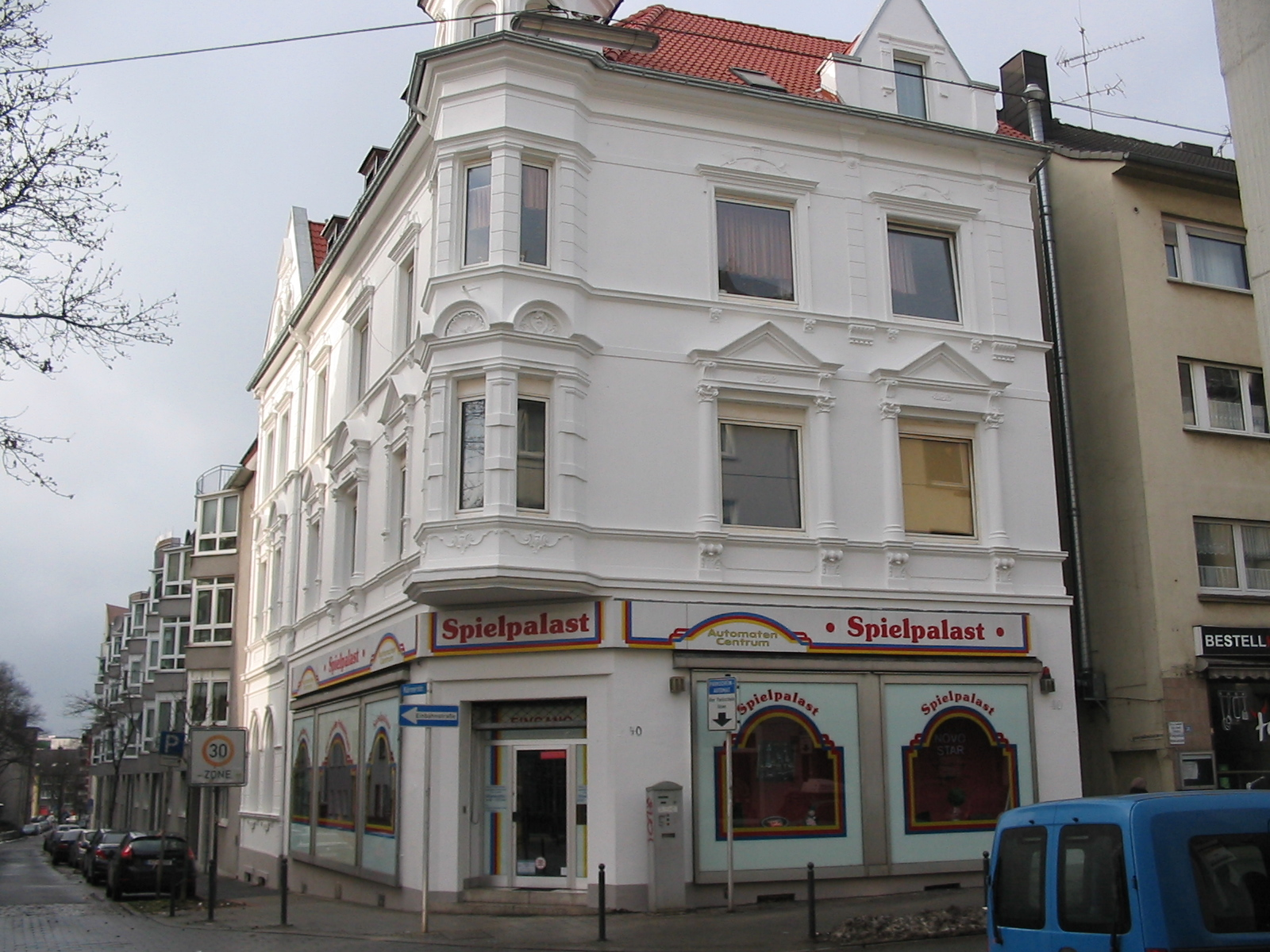 House Ruhrstraße 40 in Witten, Germany